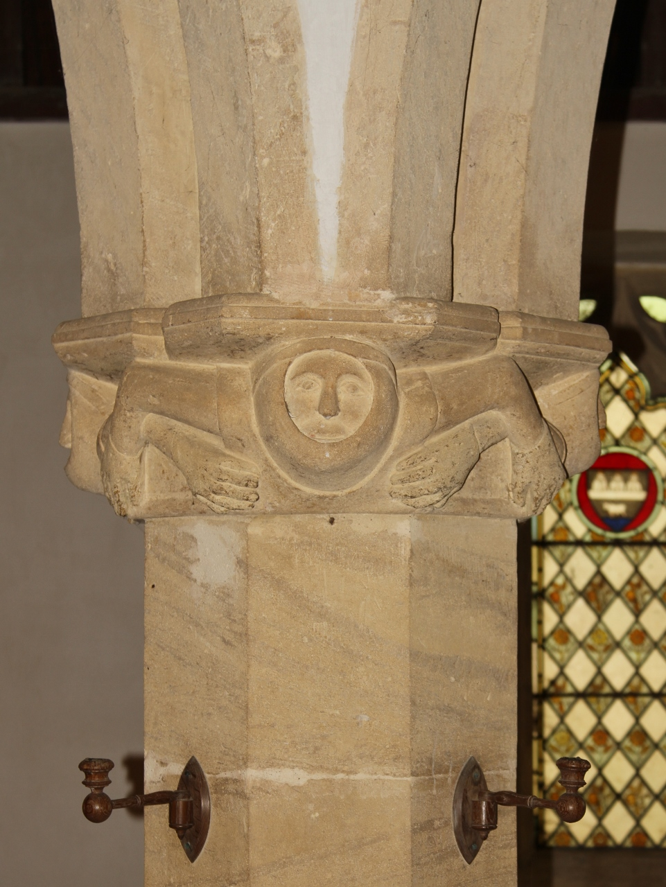 Capital of column in the north arcade of St Mary's parish church, Hampton Poyle, Oxfordshire, seen from the south